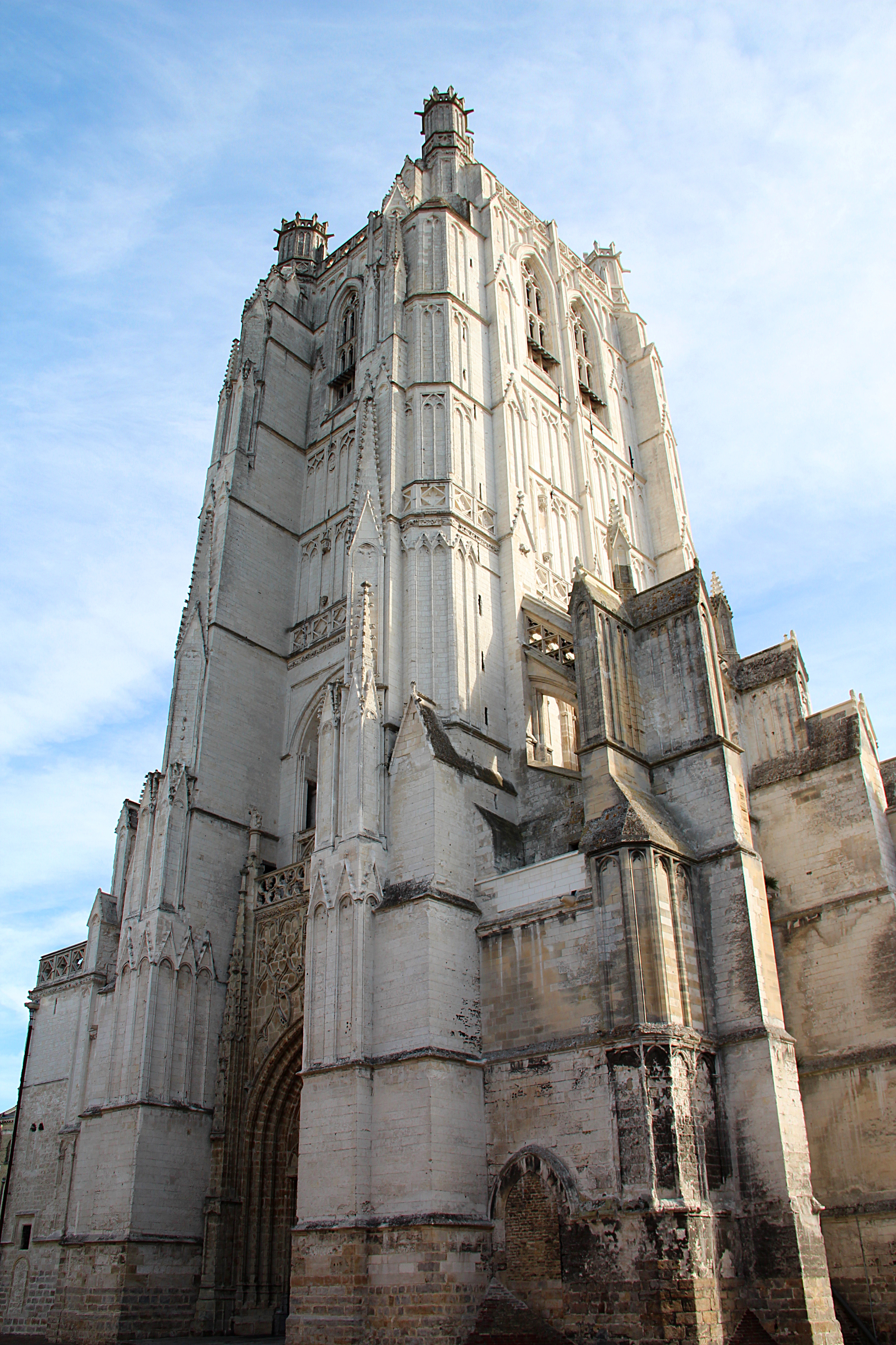 Saint-Omer (Pas-de-Calais - France), western tower (1473-1521) of the Notre-Dame de Saint-Omer Cathedral.